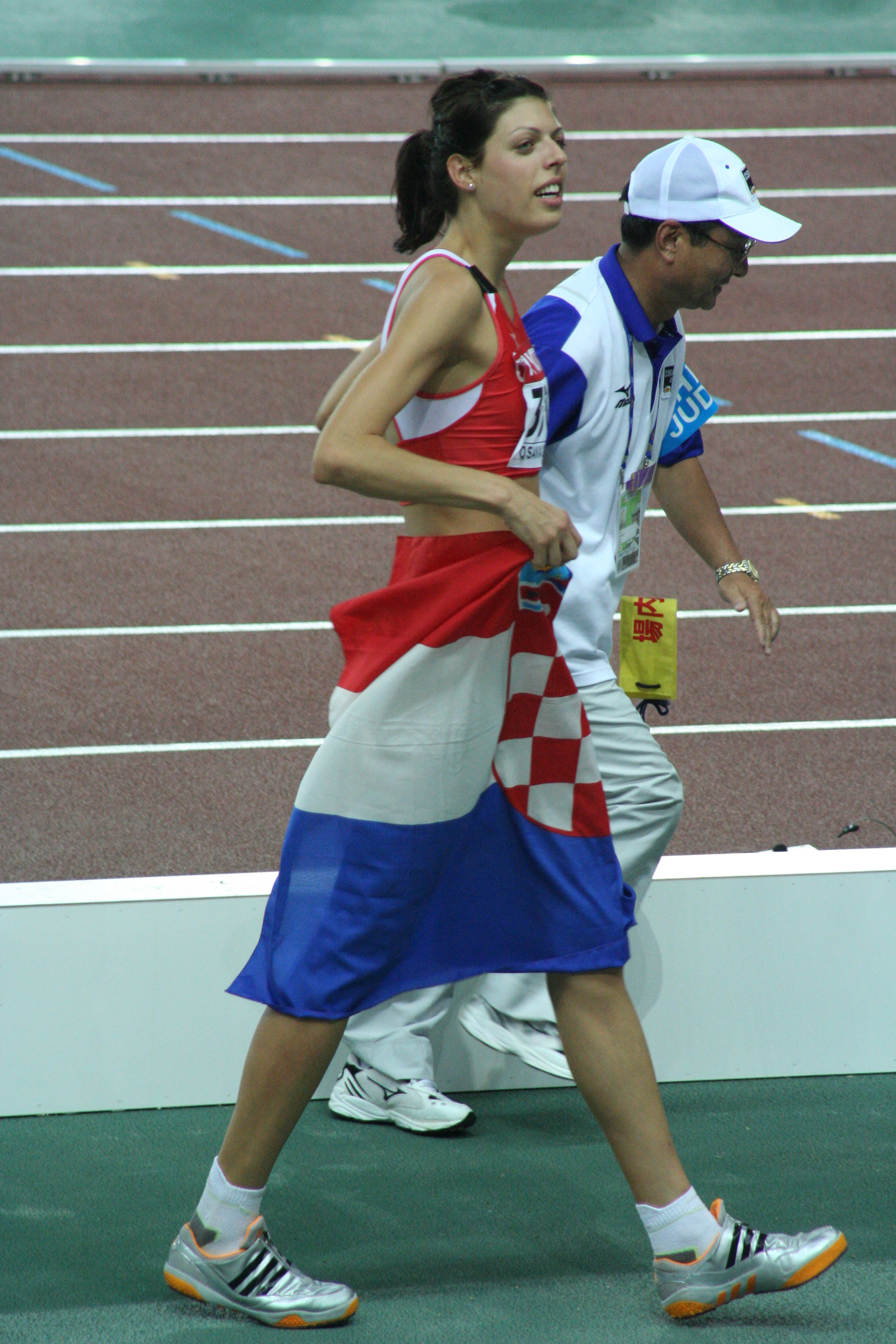 World Athletics Championships 2007 in Osaka - Blanka Vlasic from Croatia after winning the women's high jump